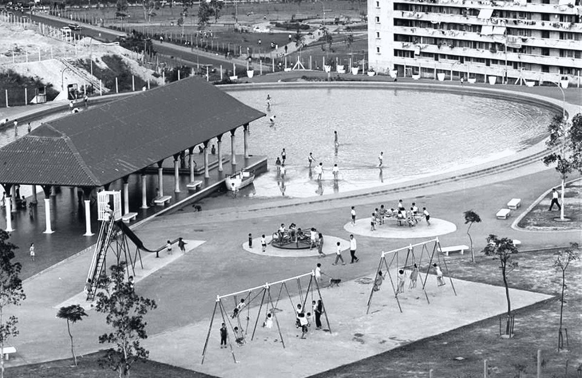 After the first generation of Blake Pier was dismantled in Central, engineers relocated 10 of the 16 steel frames of the pavilion (due to limitation of the designated area) to the model boat pool in Morse Park No. 4 in Wong Tai Sin.